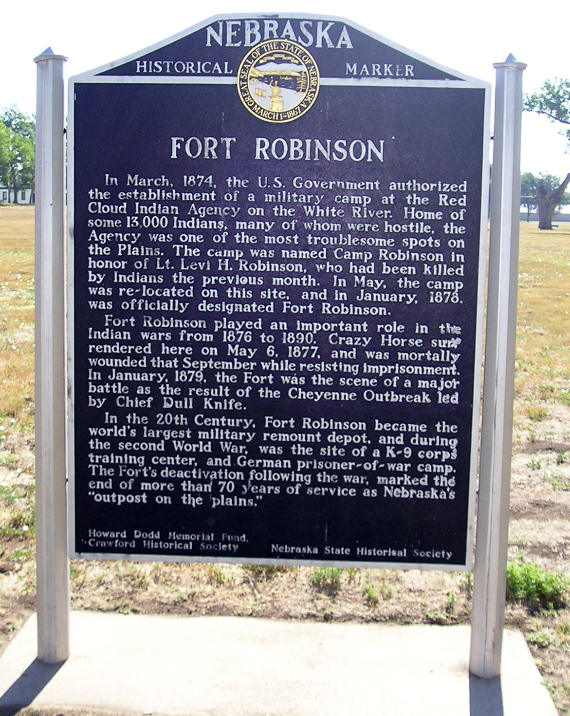 I took this picture in July 2006